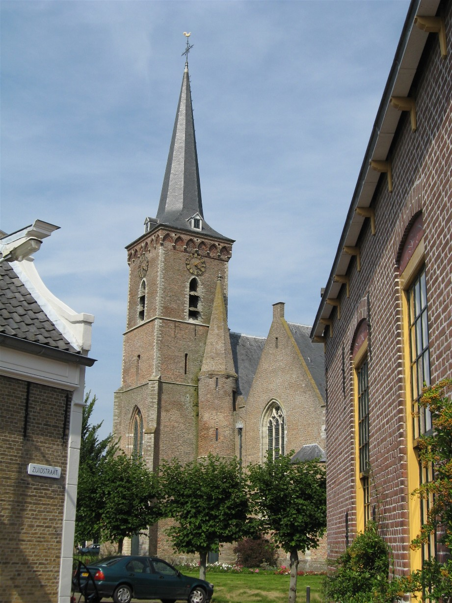 Tower of Sint-Adriaanskerk, church of Dreischor (Schouwen-Duiveland)